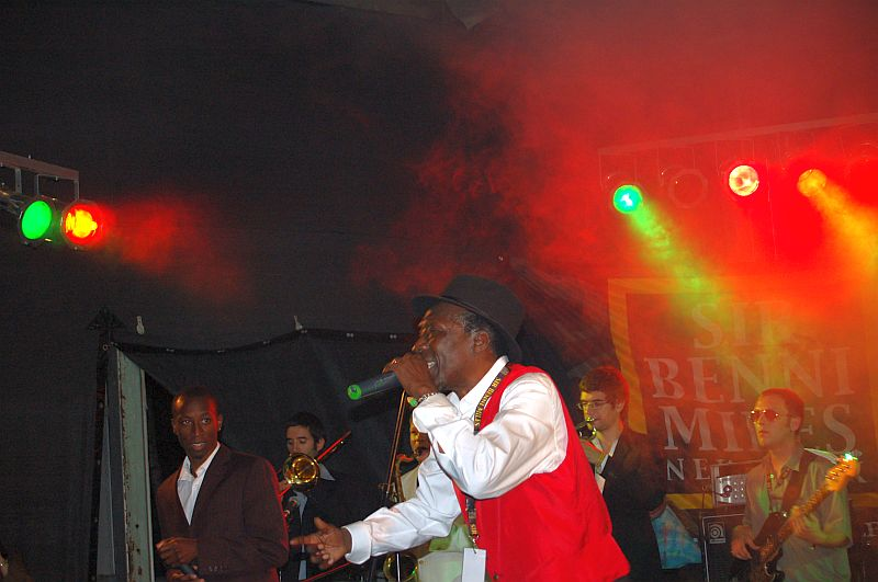 Alton Ellis - from Flickr